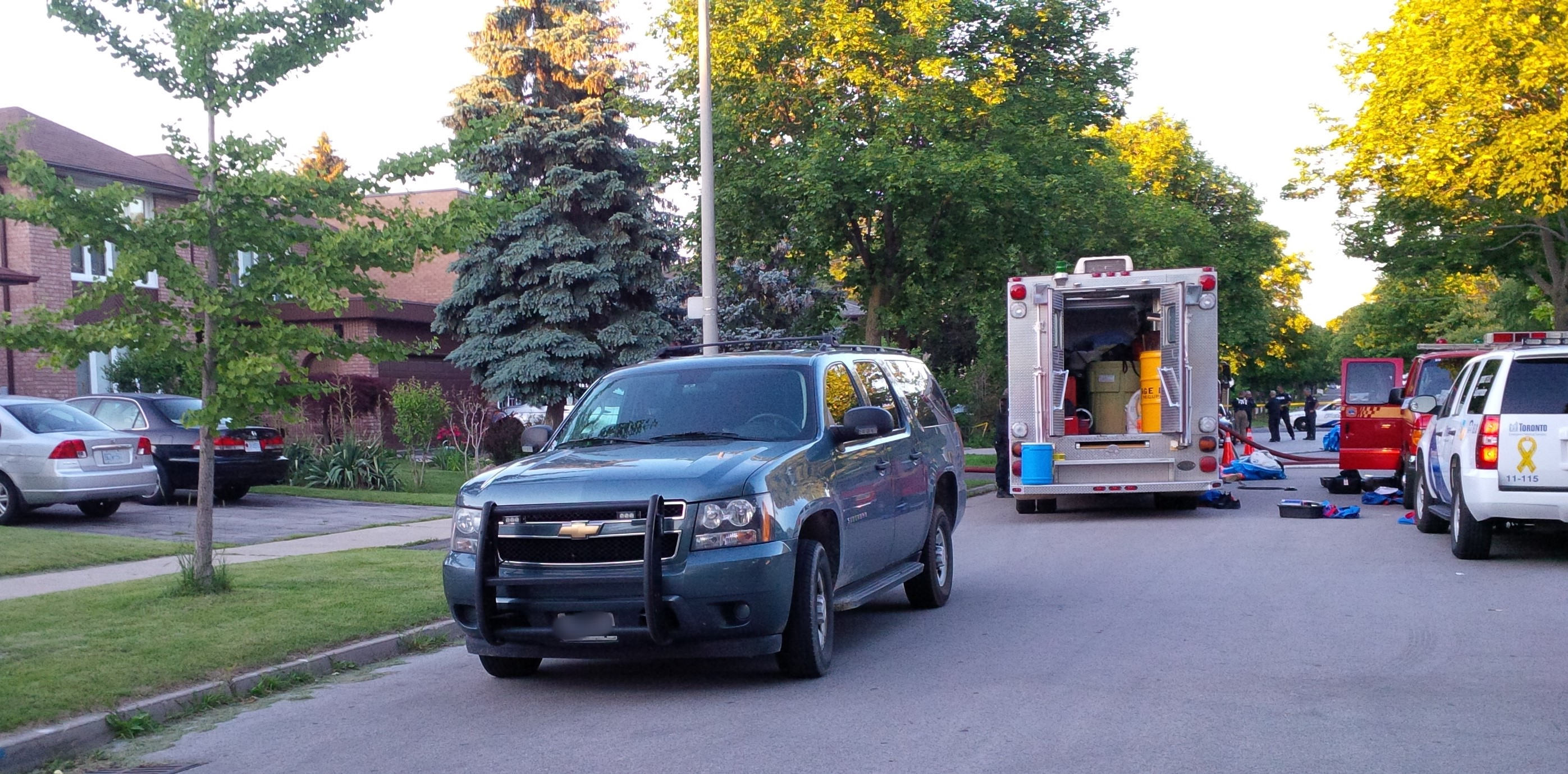 An ETF Chevrolet Suburban on the scene of a high-risk incident in North York in 2015